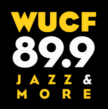 89.9 WUCF-FM logo.